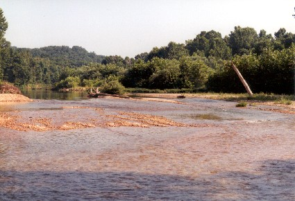 Big Sugar Creek in the Ozark Mountains, Southwest Missouri.